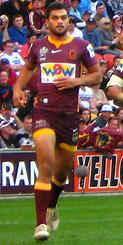 Karmichael Hunt